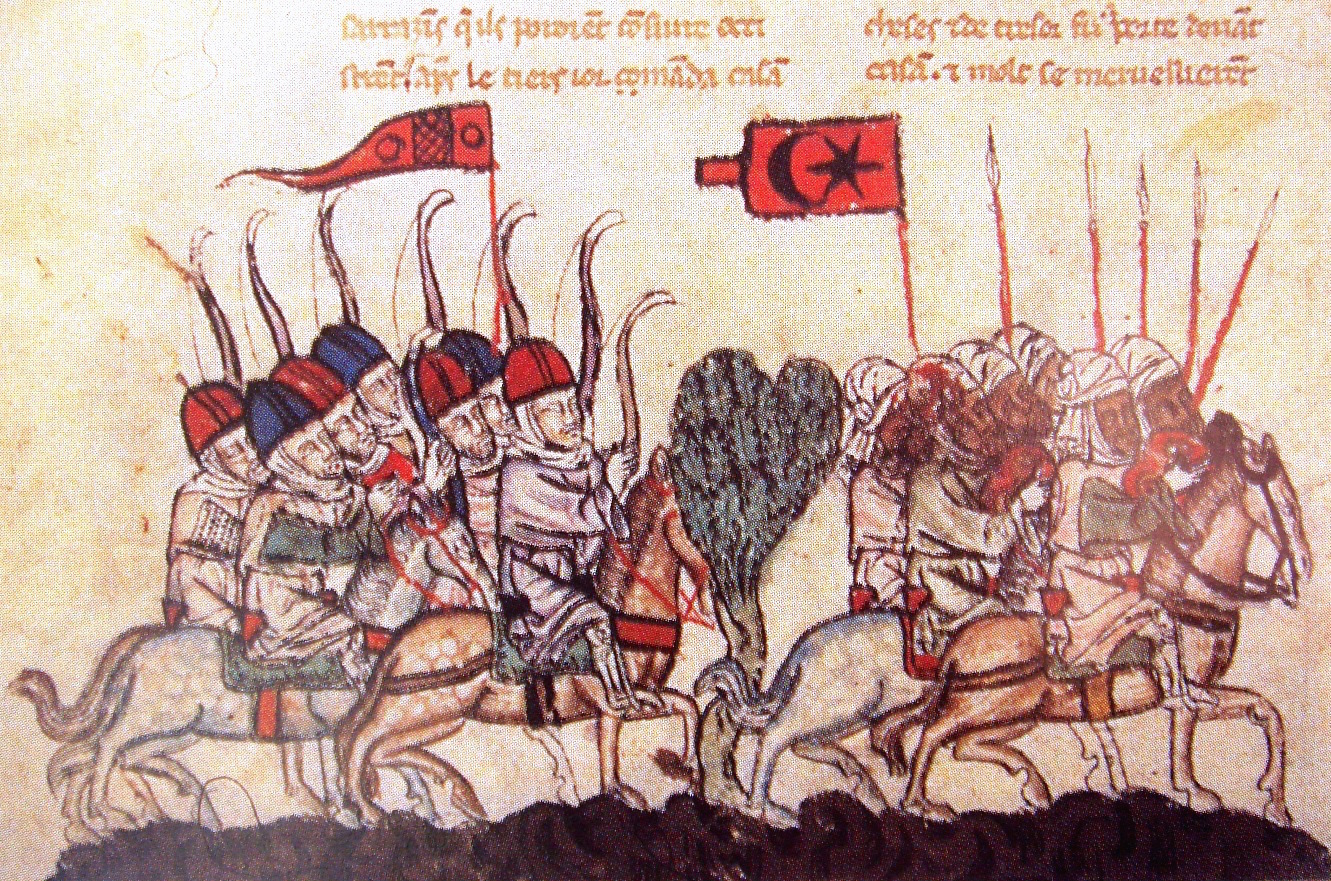 The Battle of Wadi al-Khazandar (Battle of Homs) of 1299 (14th-century miniature) This is an early depiction of a "star and crescent" flag. It is important to note that various combinations of stars and crescents are shown in this manuscripts, and they are not consistently attributed to a particular faction (e.g. the Crusaders have a crescent flag on fol. 19v and a star flag on fol. 9v, and the Mongols have a star and crescent on fol. 22rv -- a secondary source is needed for a coherent discussion).